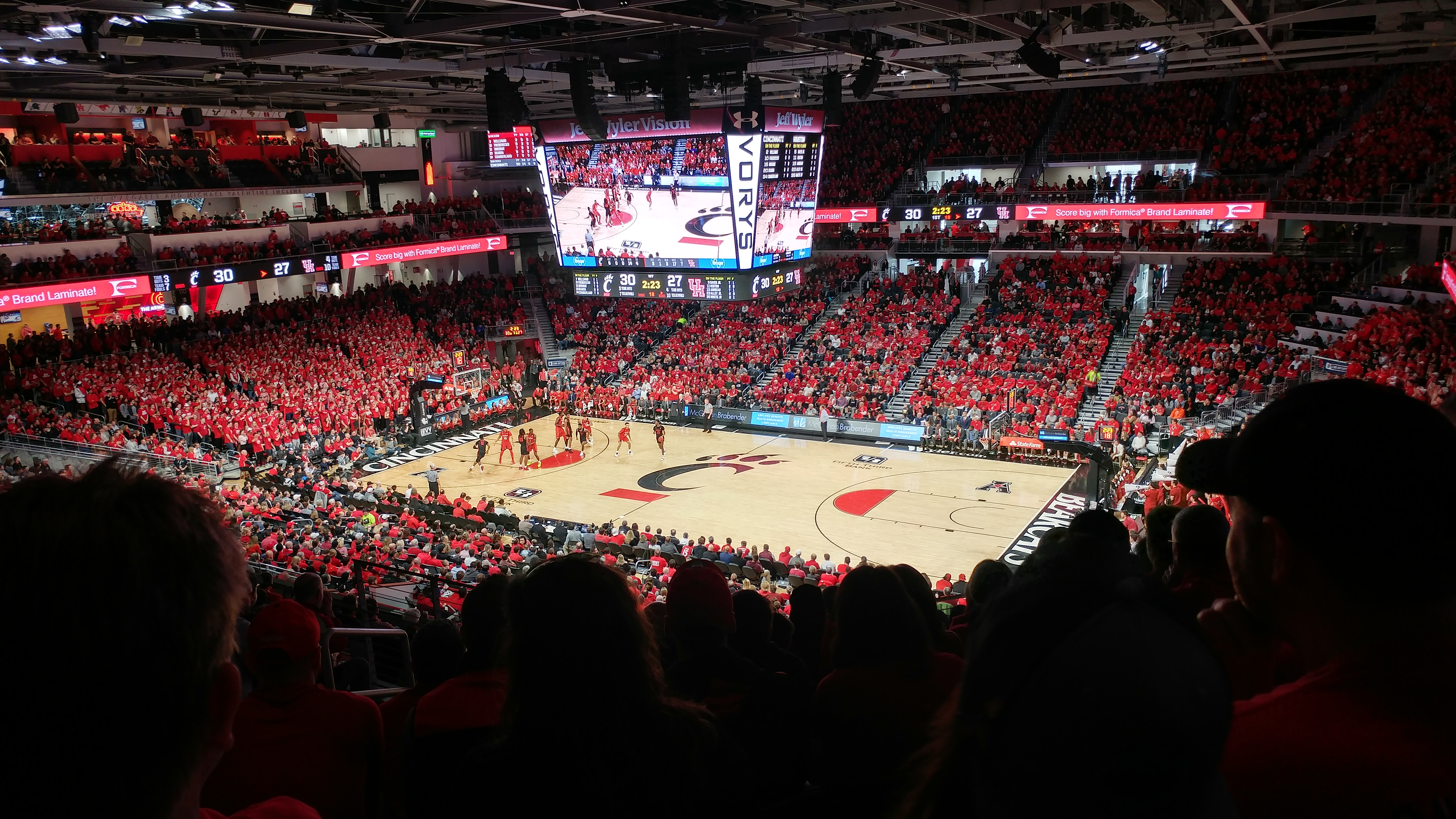 Men's basketball game March 10, 2019 University of Cincinnati hosting University of Houston View from Section 201